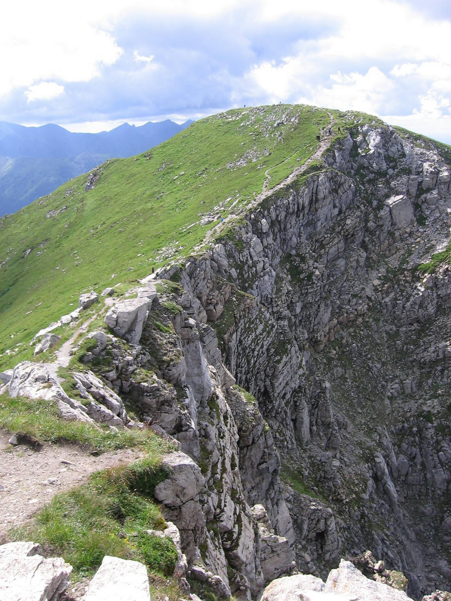 Ciemniak seen from Krzesanica